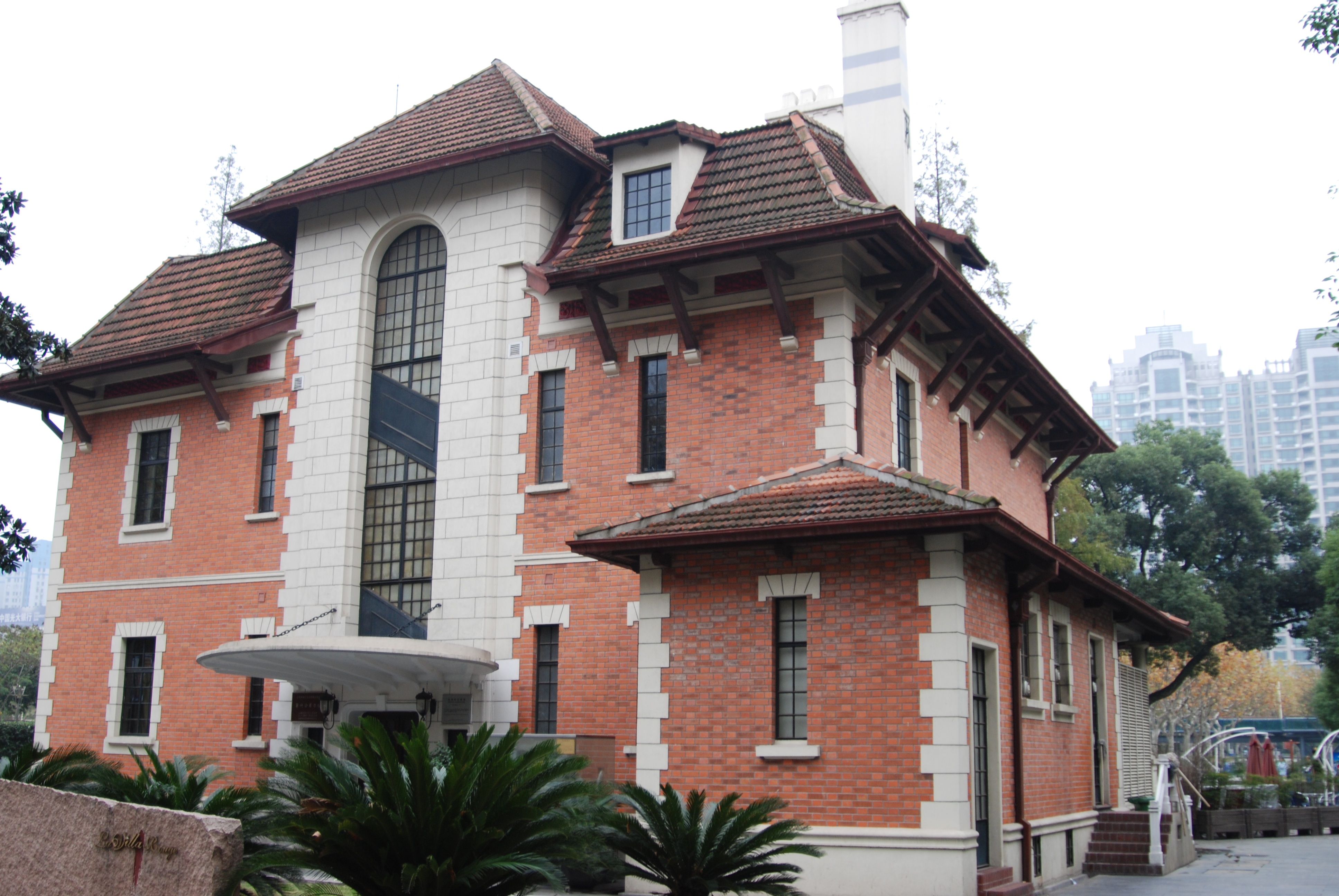 Hengshan Road No. 811